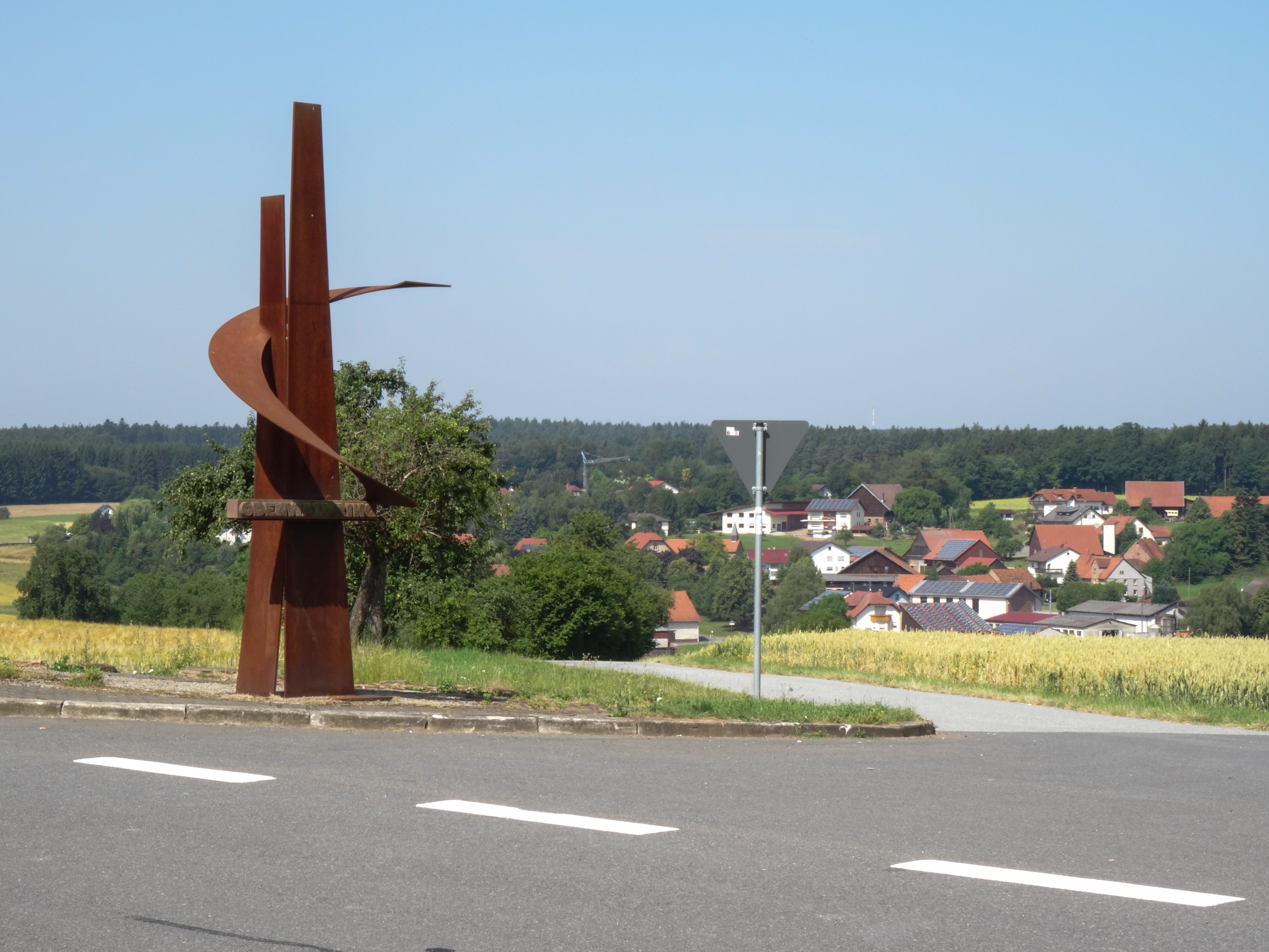 Memorial for the former race track "Odenwaldring" near Buchen-Oberneudorf, Germany